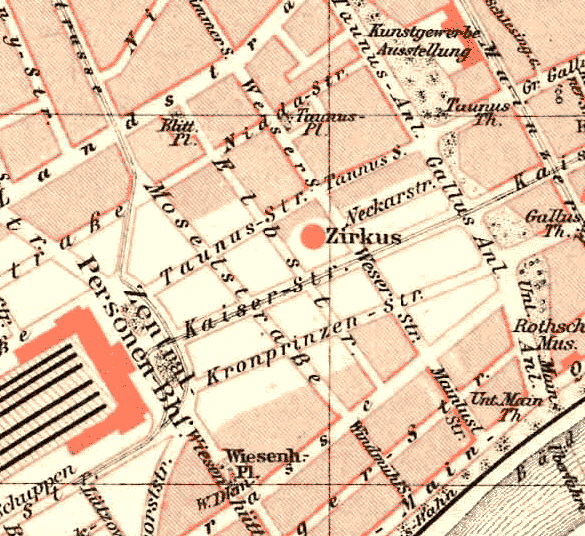 Frankfurt city map, 1893: Station Quarter. The yet unbuilt areas were used by three railway stations until 1888. They were replaced by the new giant central station, Europe's largest station building at the time, 600 metres to the east.